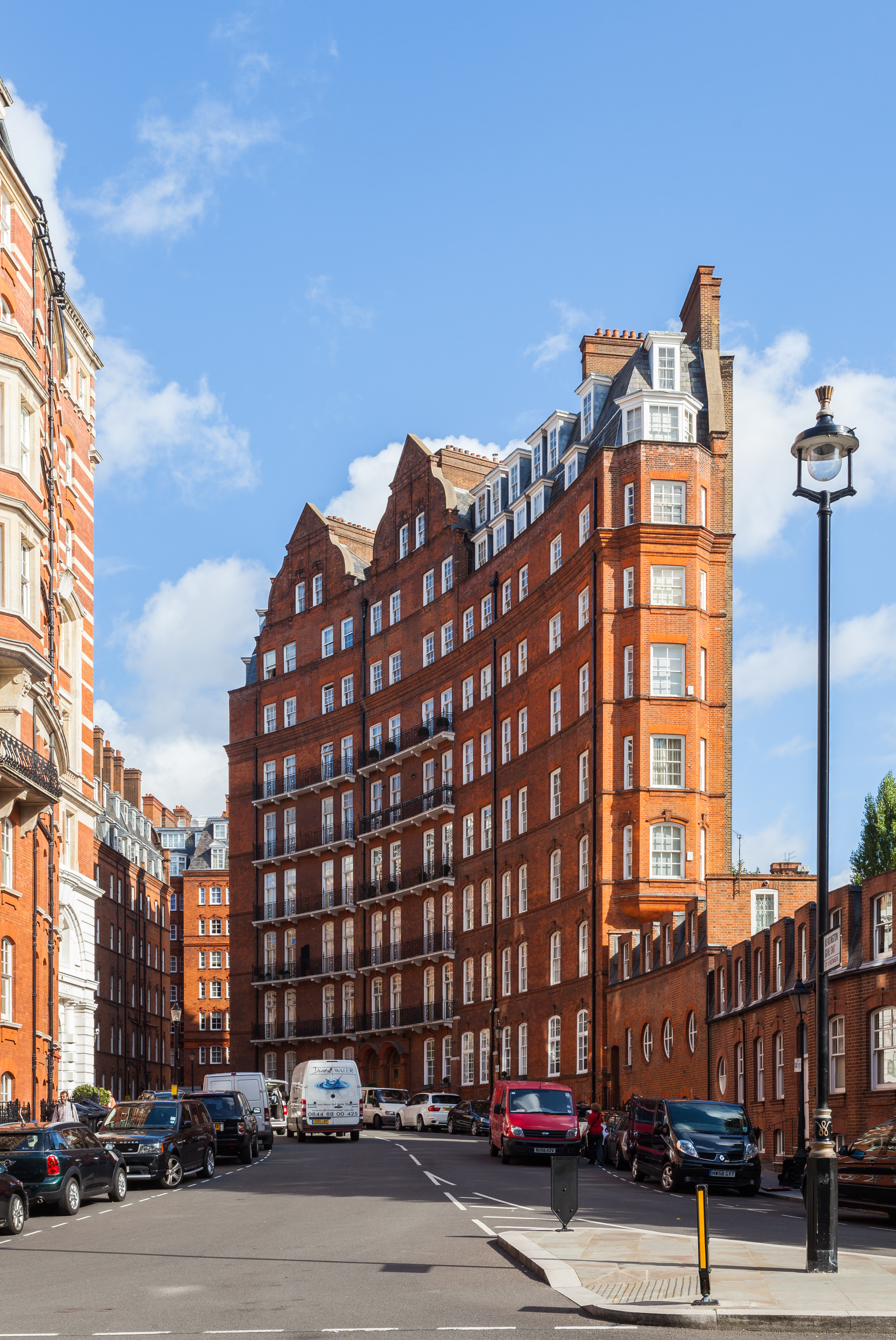 Brick buildings in Kensington Gore, London, England